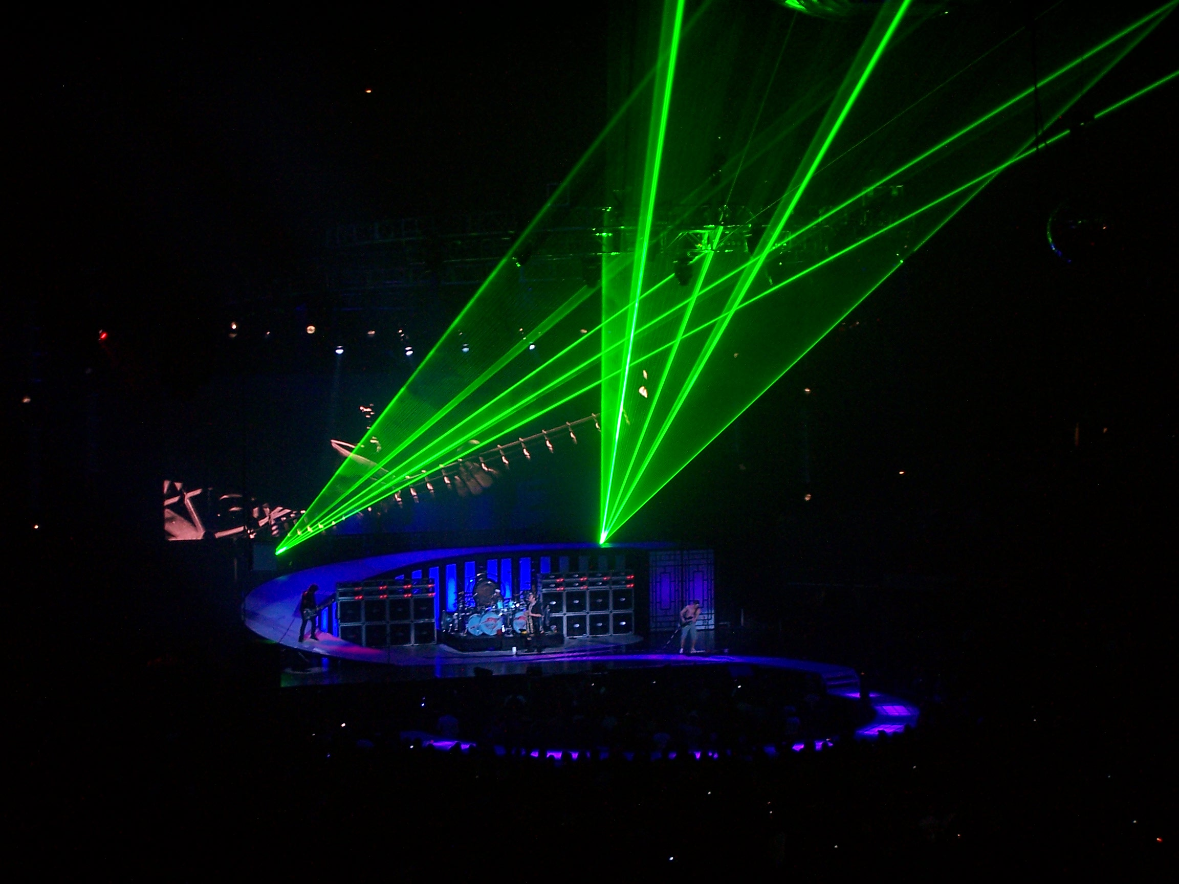 Van Halen perform in Toronto on their 2007 reunion tour.